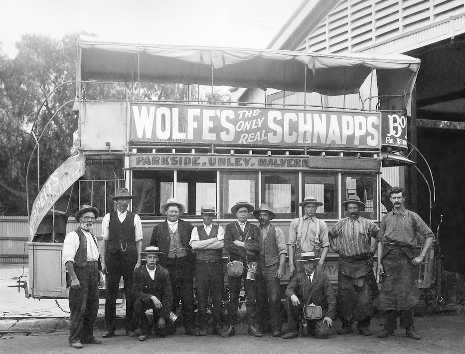 Side view of a horse tram outside a shed at what is believed to be the horse tram depot at Unley, Adelaide. On the side is a destination sign reading "Parkside, Unley, Malvern". Several advertisements are also visible. Eleven employees are posed in front of the photograph, some showing their tools of trade.